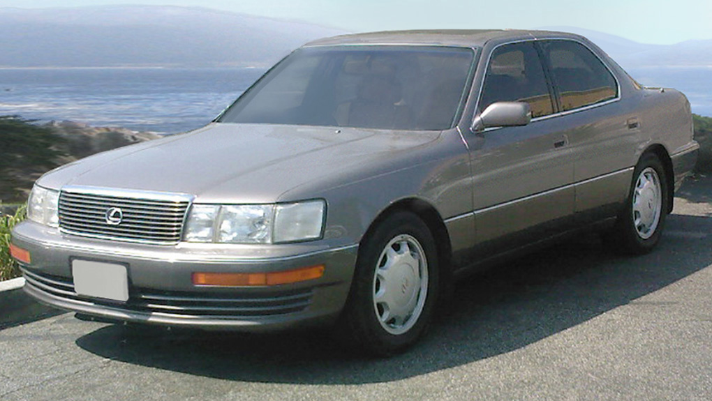 LS 400